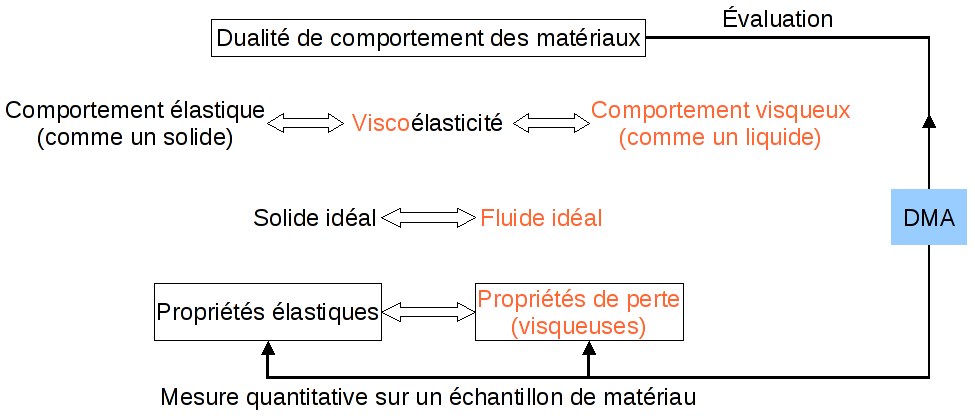 Dual behavior of materials: viscoelastic nature (e.g. of a polymeric material). DMA (Dynamic Mechanical Analysis, the most sensitive thermal analysis technique) measures viscoelastic [elastic and loss (viscous)] properties. DMA analyzer permits a complete viscoelastic characterization on a sample.